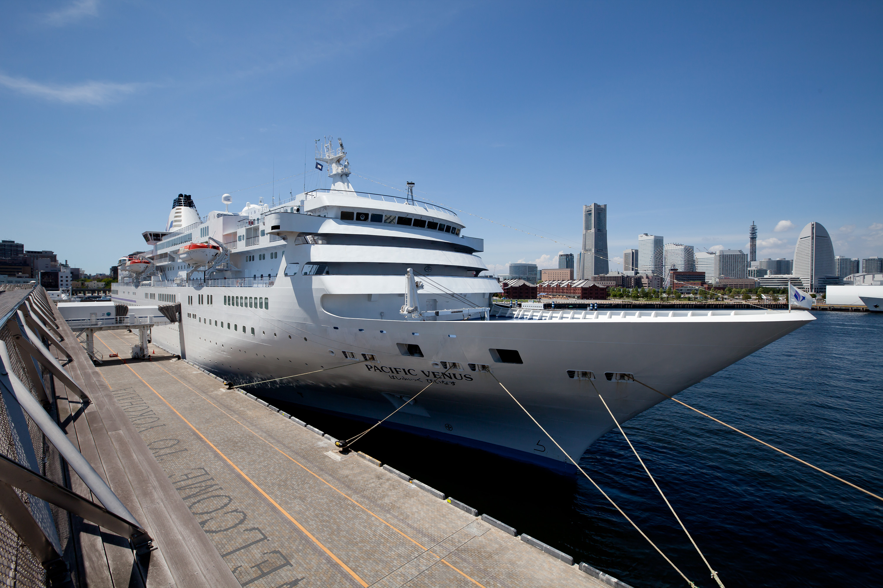 Pacific Venus at Yokohama Osanbashi